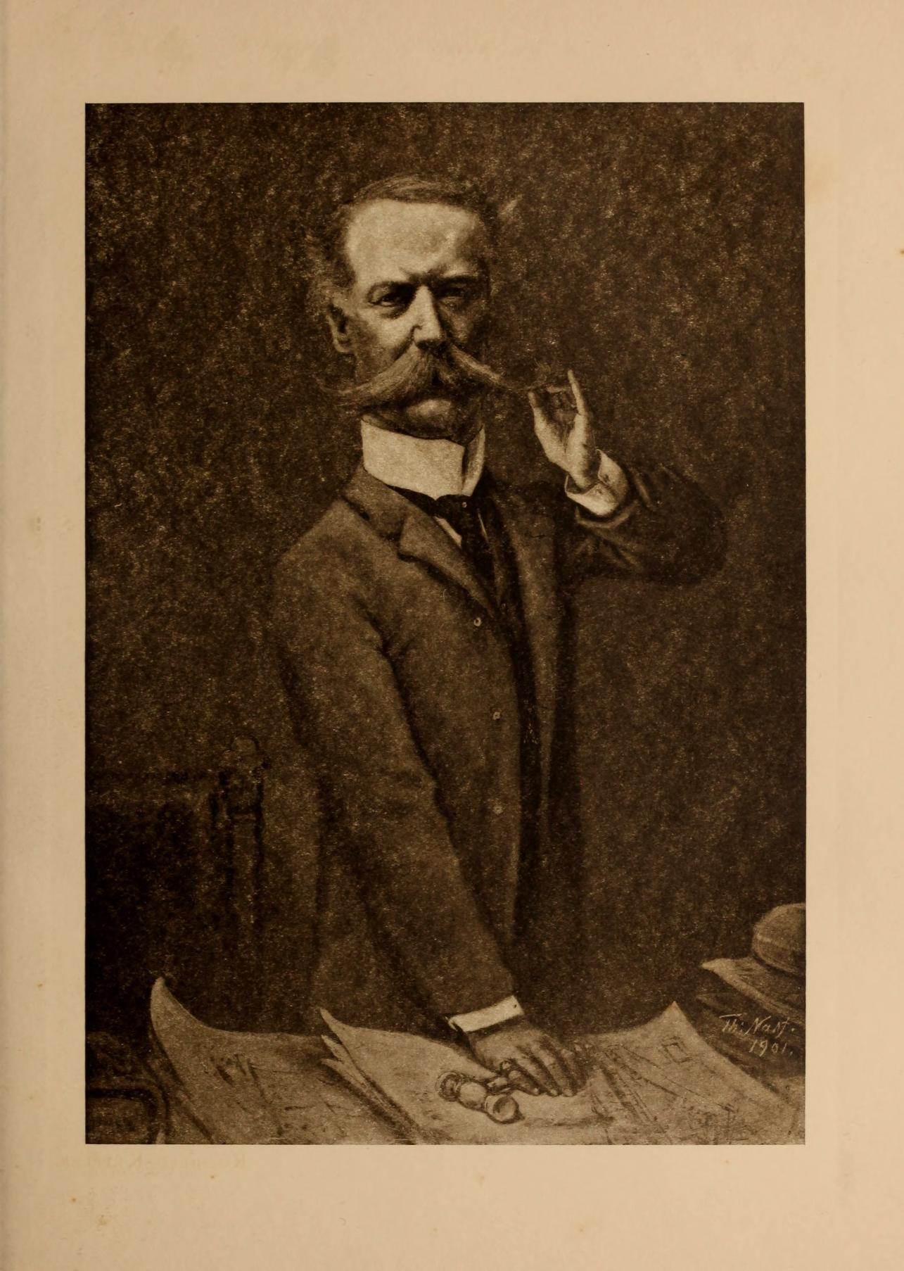 From The Stock Exchange in Caricature (1904)